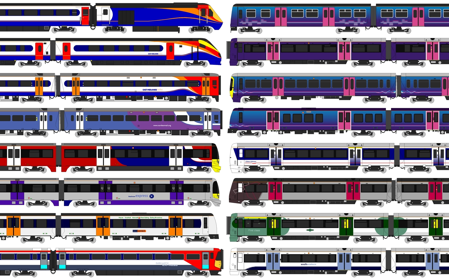 A diagram of a First Capital Connect Class 319 train.